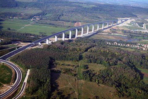 Kőröshegy, Hungary, aerialphotography